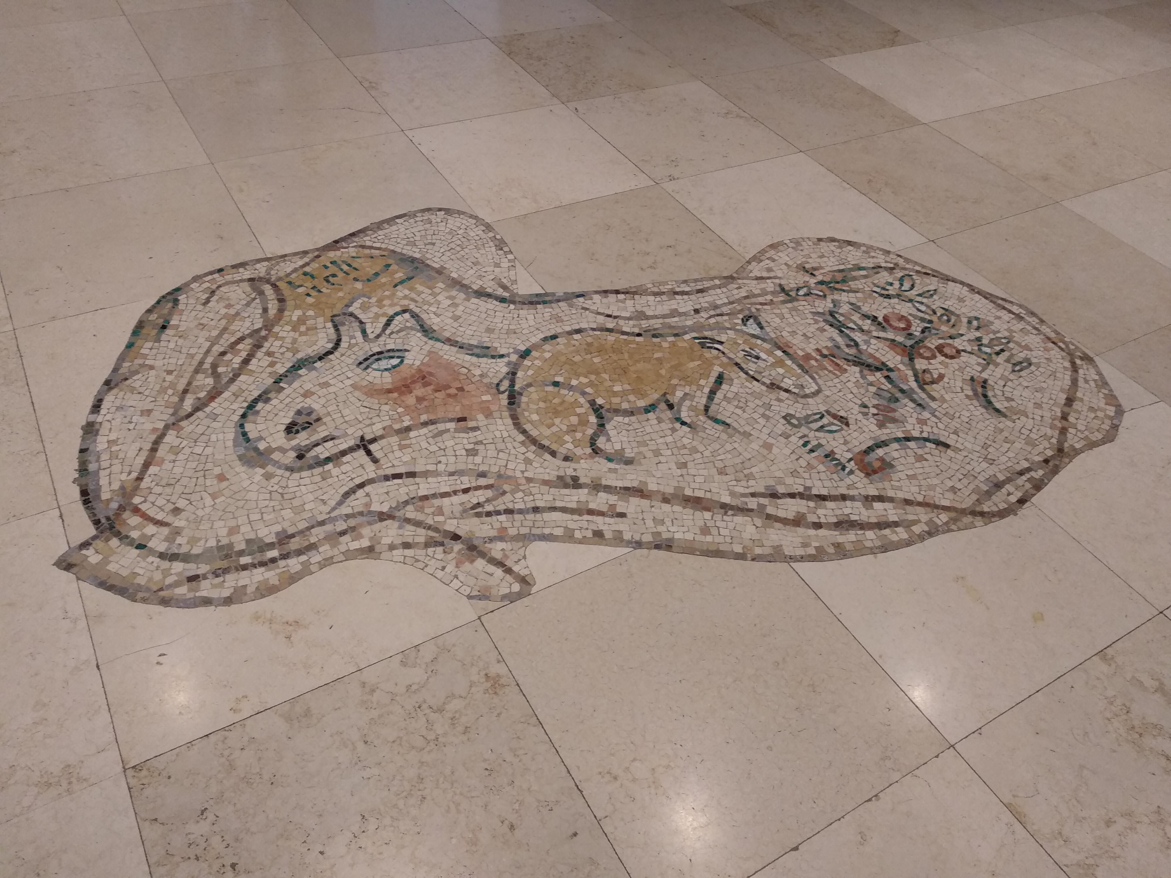 Marc Chagall Lounge in the Knesset